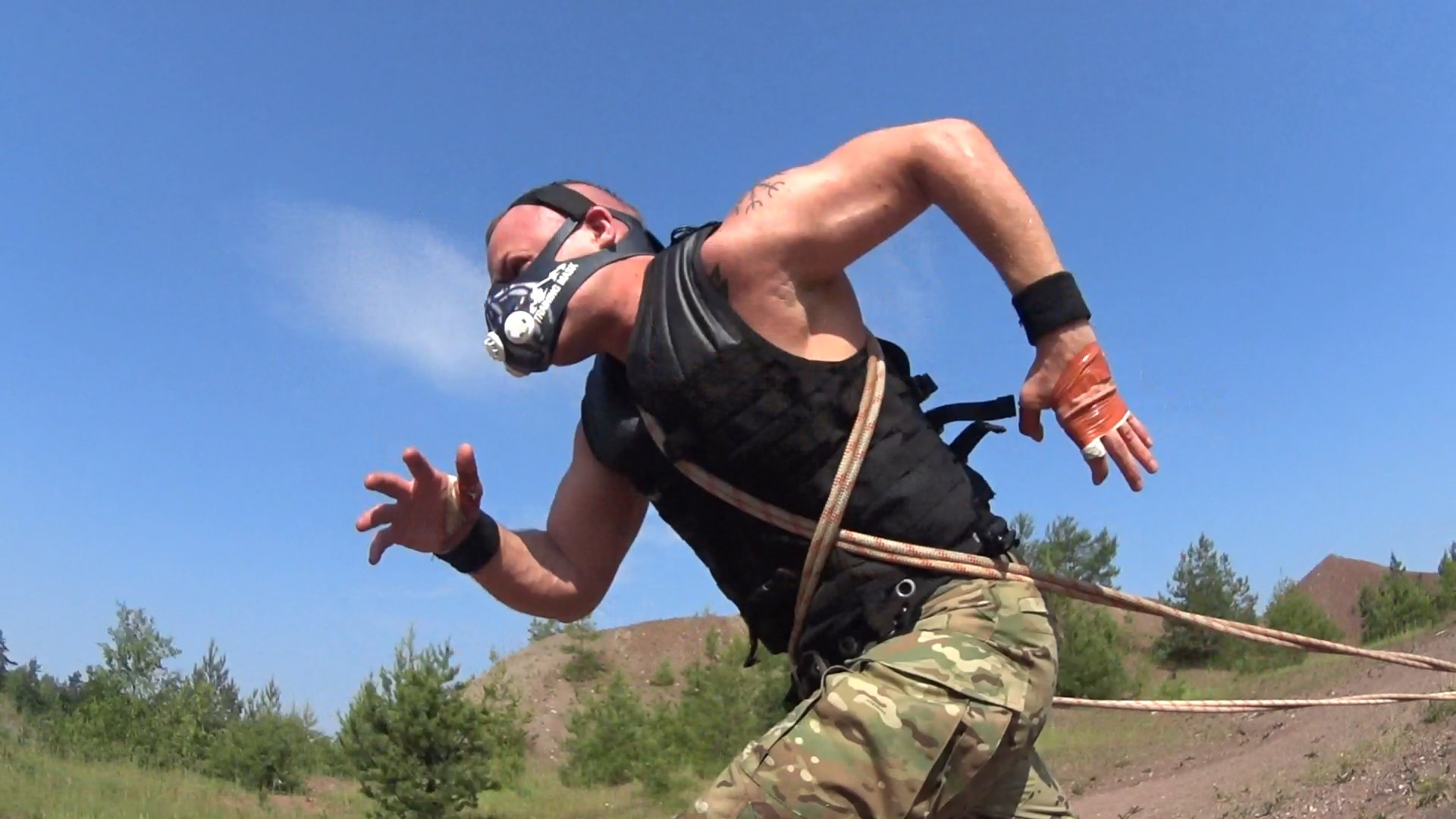 Run with tire